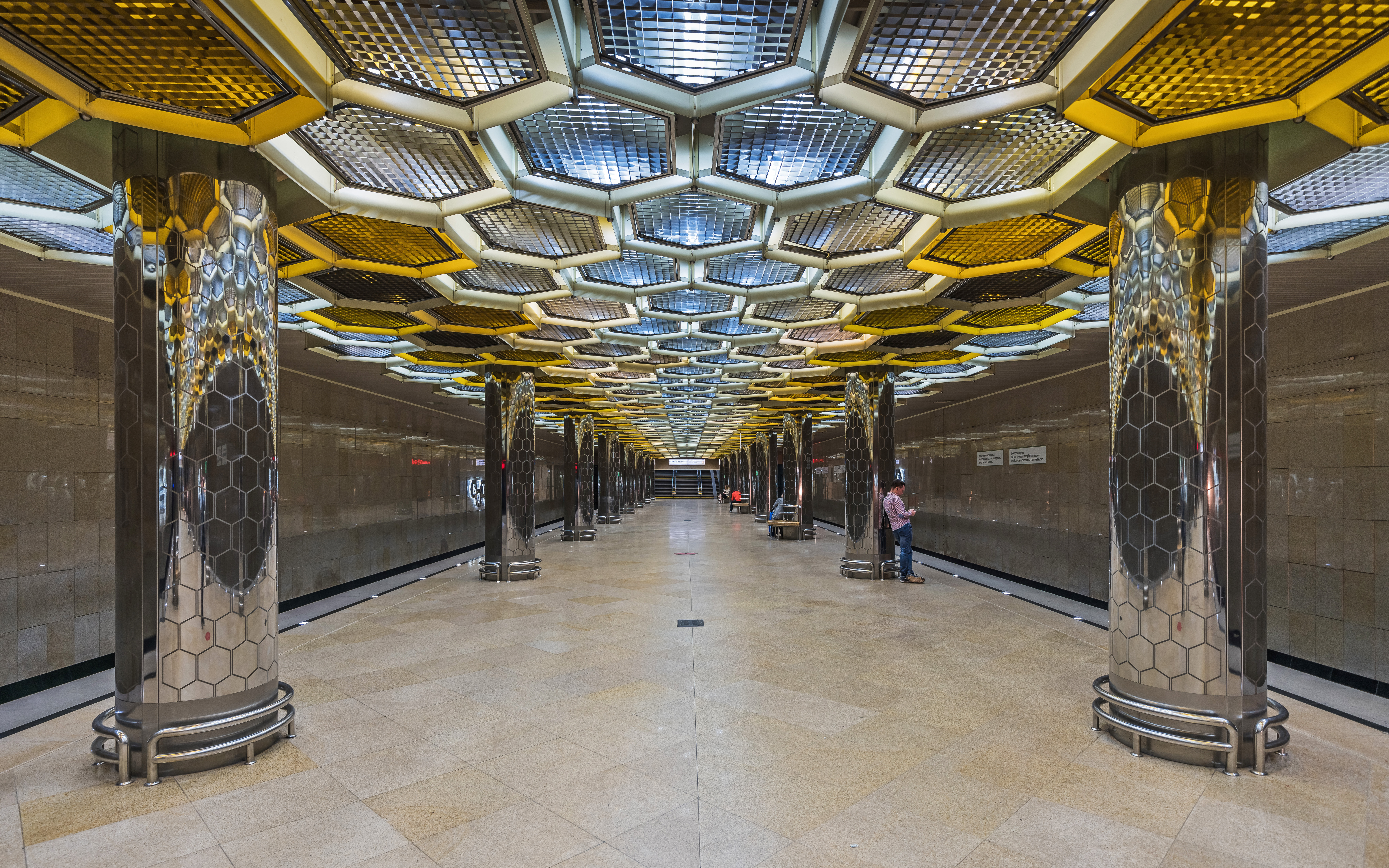 Botanicheskaya metro station in Ekaterinburg, Russia